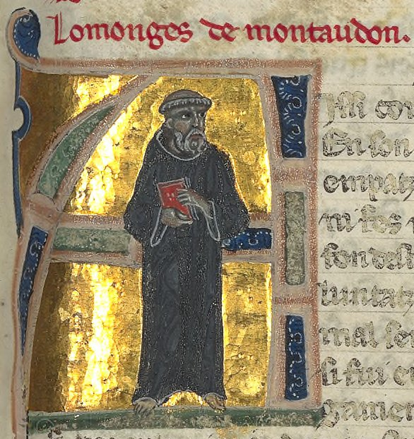 The Monge de Montaudon with a book (Bible?) from BNF 12473, folio 121r.